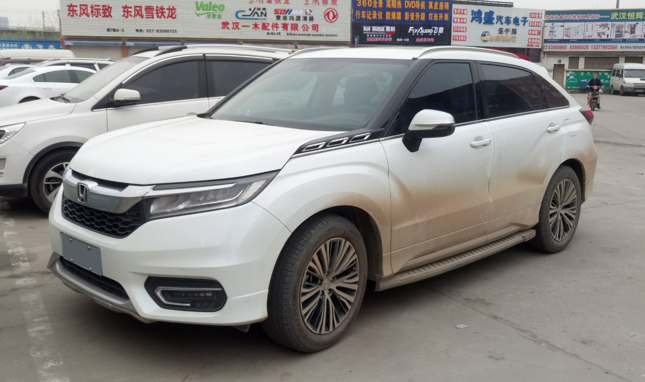 Honda Avancier CN photographed in Wuhan, Hubei province, China.